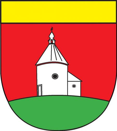 Coat of arms of Štěpkov, Třebíč District, Czechia